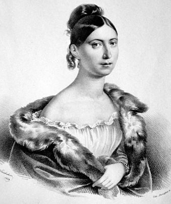 Giuditta Pasta Kriehuber-detail